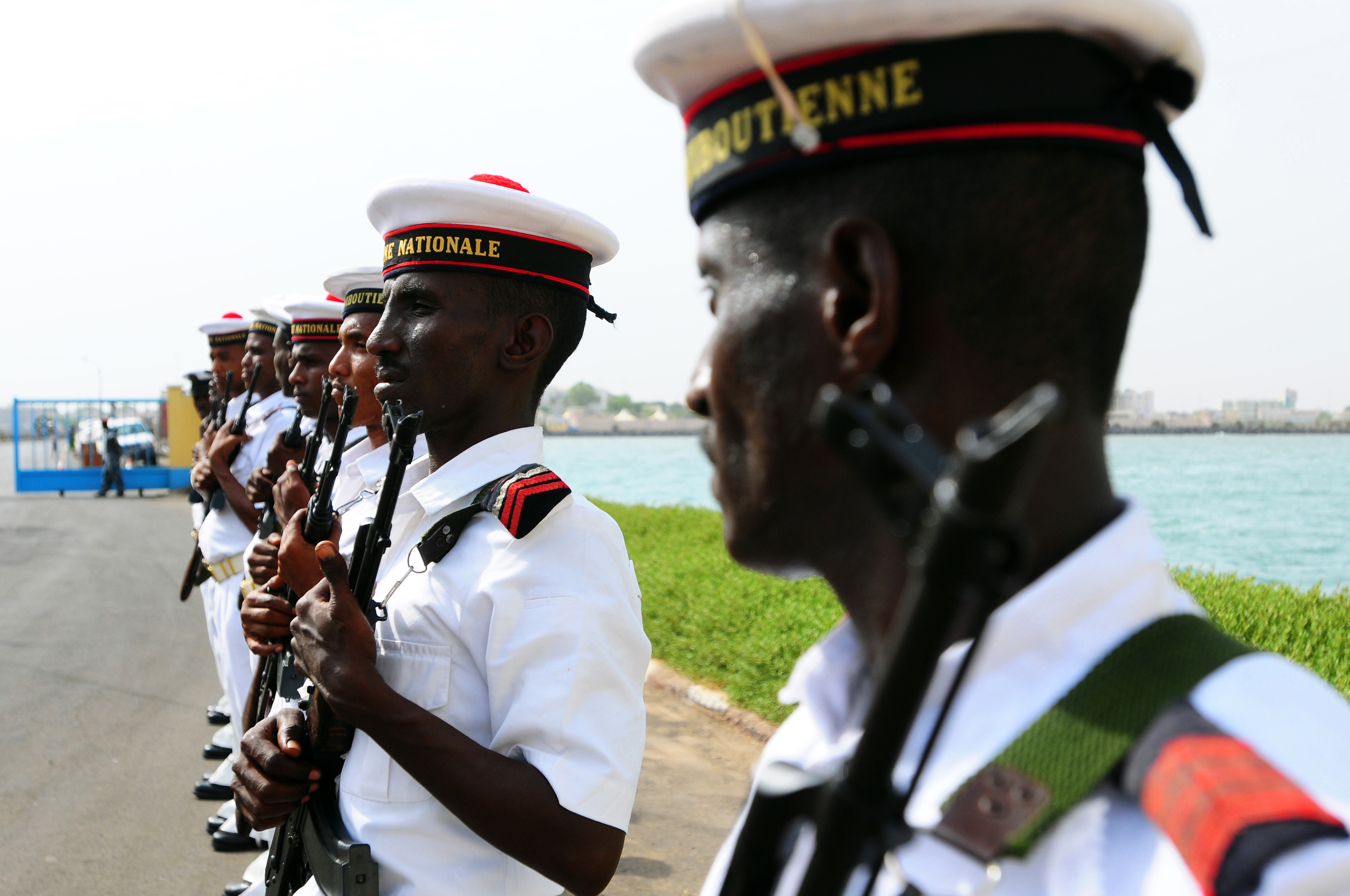 Members of the Djiboutian military form ranks before the arrival of William Ward, U.S. Africa Command, at the Port de Djibouti.